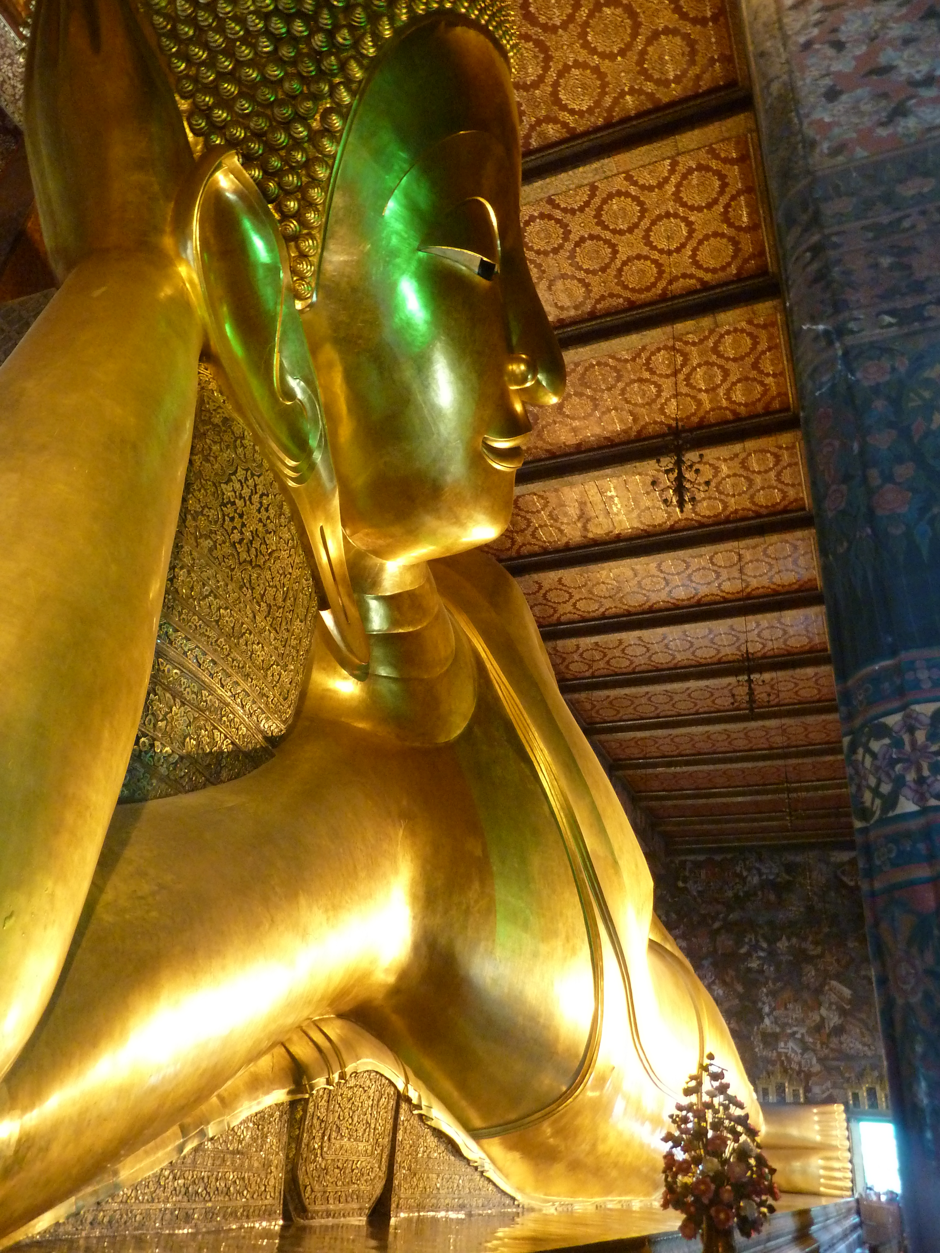 Reclining Buddha statue, Wat Pho, Bangkok, Thailand